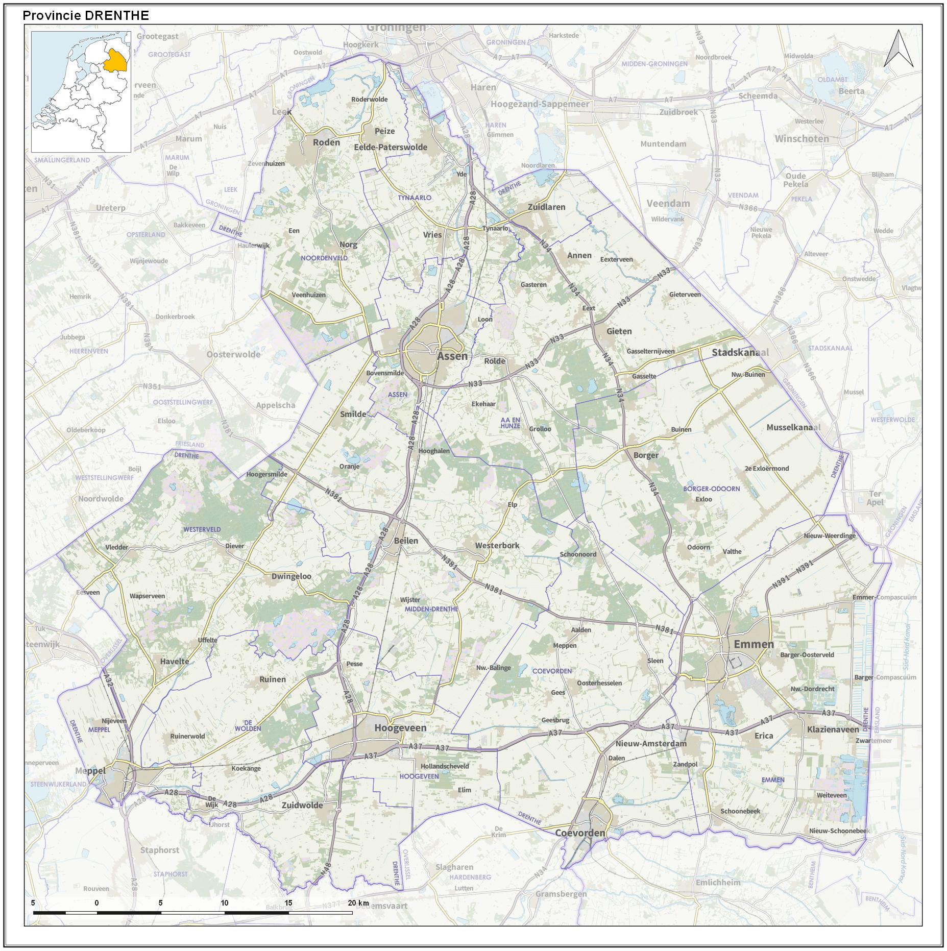 Toographic overview map of the Dutch Province of Drenthe as of 2018. Compiled by Jan-Willem van Aalst using Dutch Governmental open data (CC-BY Kadaster) and OpenStreetMap data (CC-BY OpenStreetMap contributors).